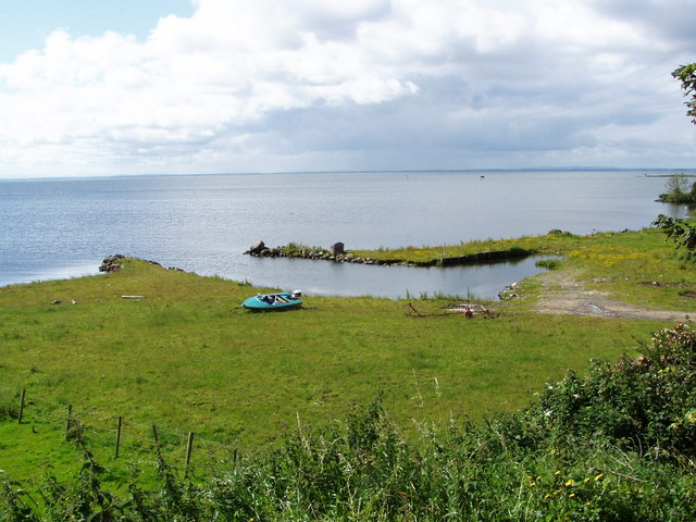 Lough Neagh. Taken from St. Colmans Abbey near Ardboe looking southeast over Lough Neagh.